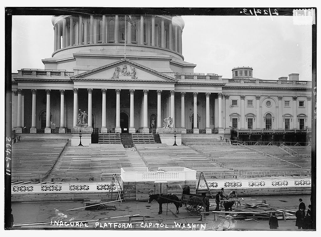 Inaug. platform, Wash. - Capitol.